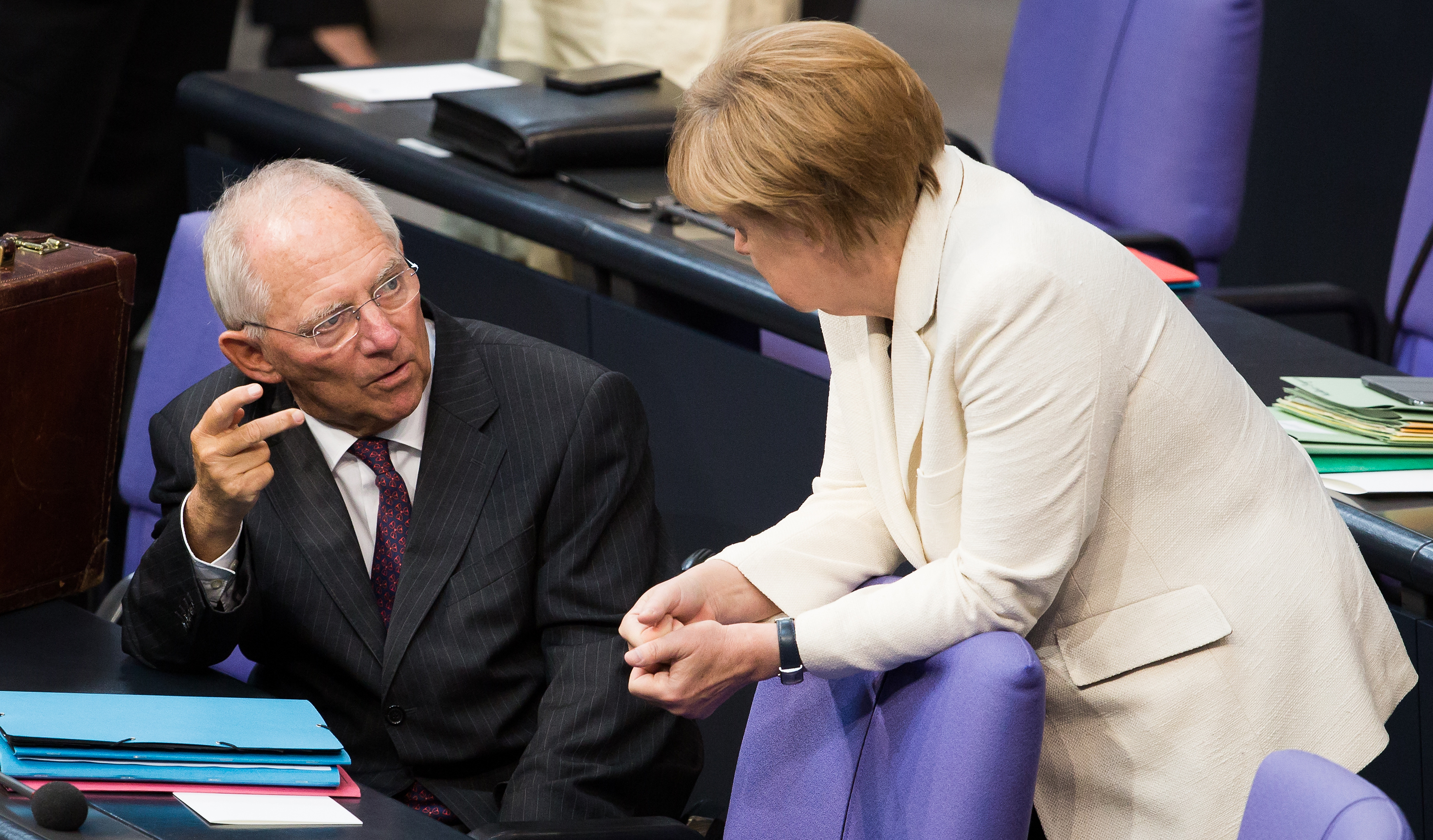 Picture taken during Wikipedia Bundestag project 2014. Angela Merkel, Wolfgang Schäuble.